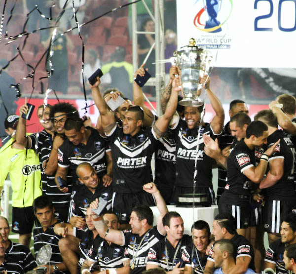 Manu holding up the World Cup